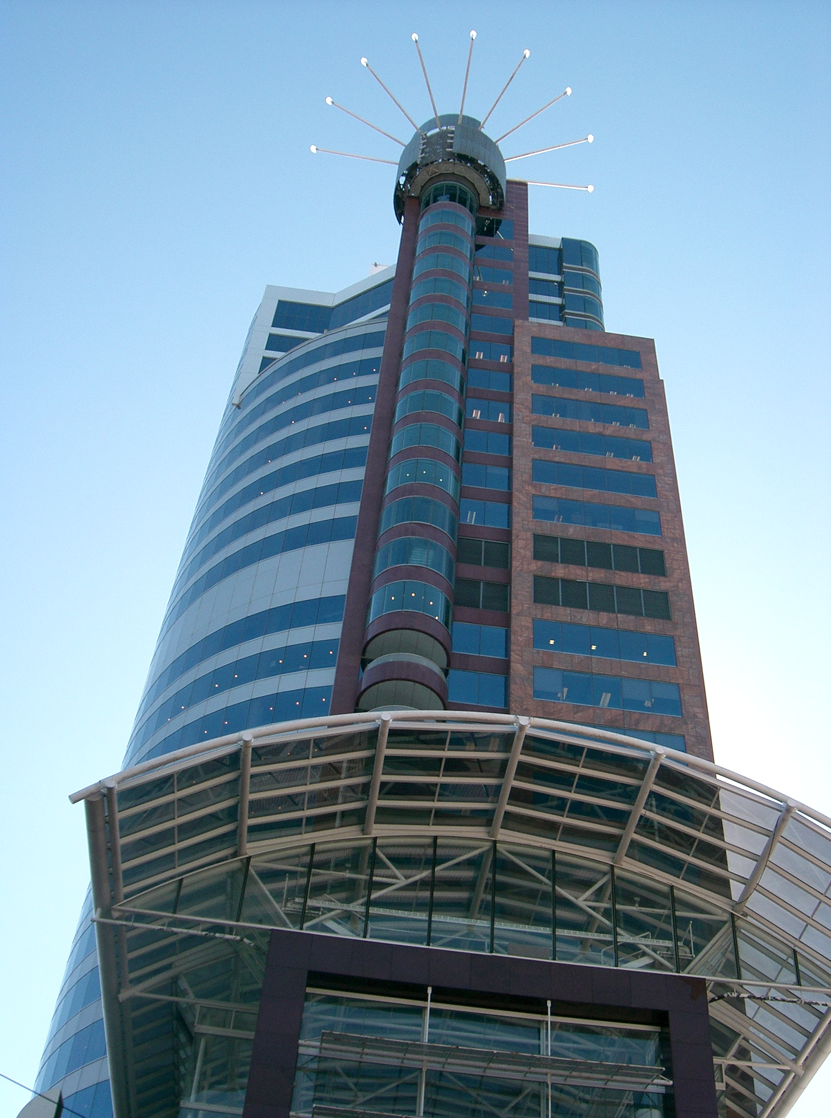 Majestic Centre, east side from Bond Street, Wellington, New Zealand